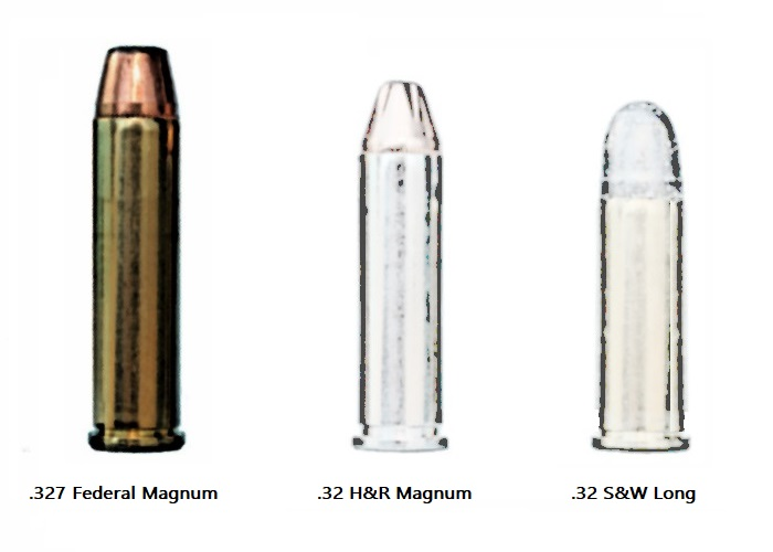 Technical sketch comparing .327 Federal Magnum (left) and the counterparts: .32 H&R Magnum (center) and .32 S&W Long (left) cartridges.